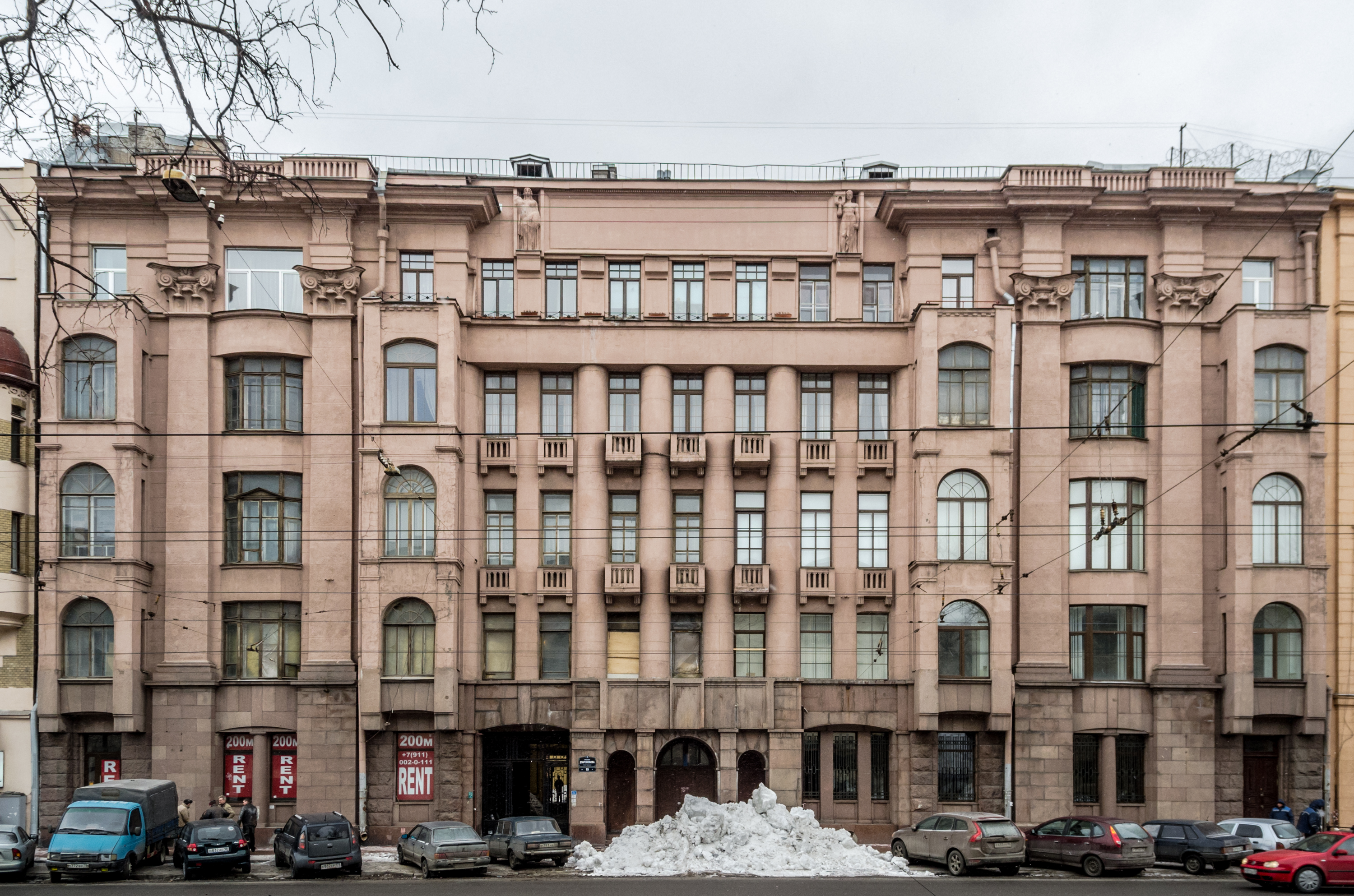 19, Dobroljubova avenue, Saint Petersburg